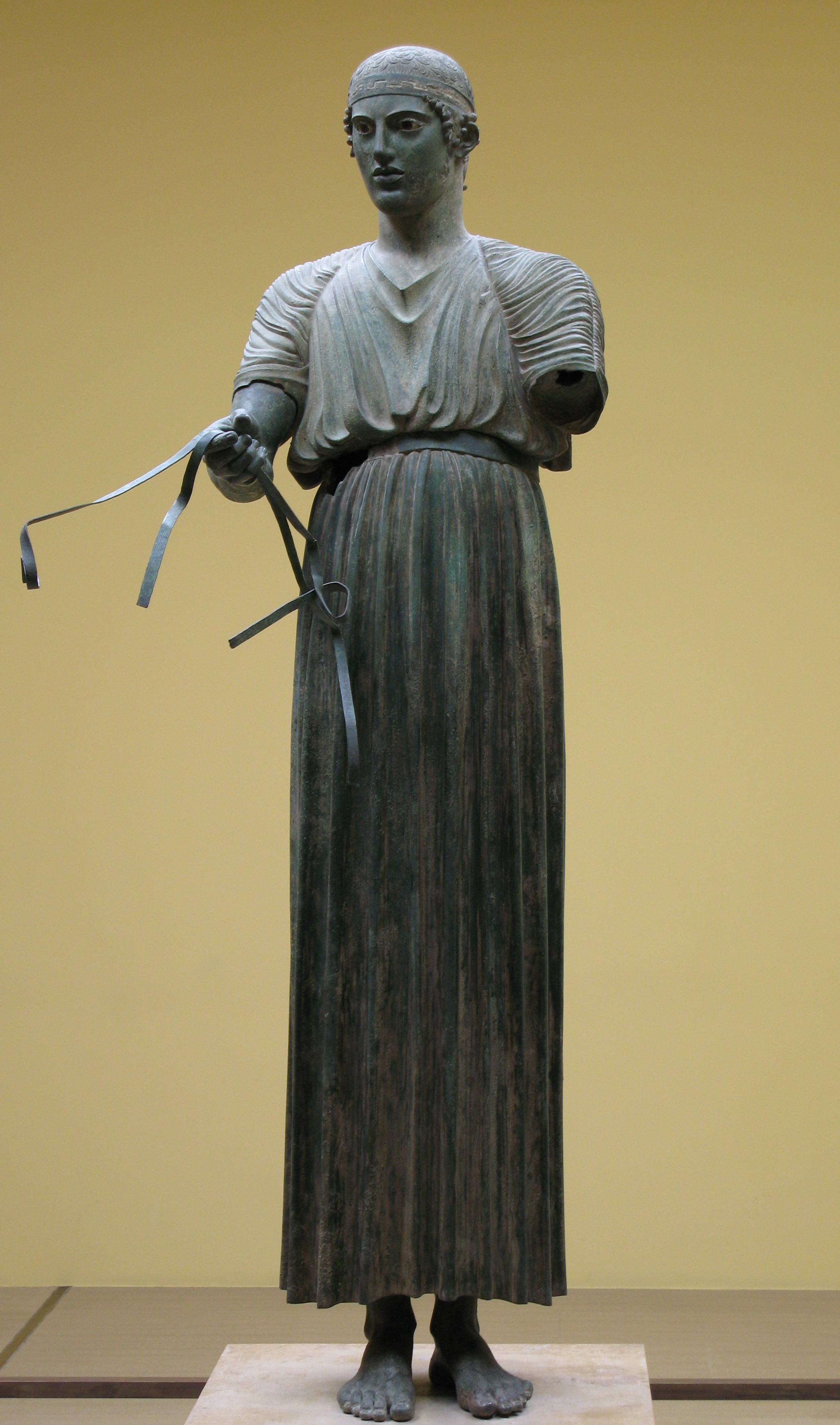 The Charioteer of Delphi, 470s B.C. Bronze, 5ft.11in. high. Delphi Museum, Greece.